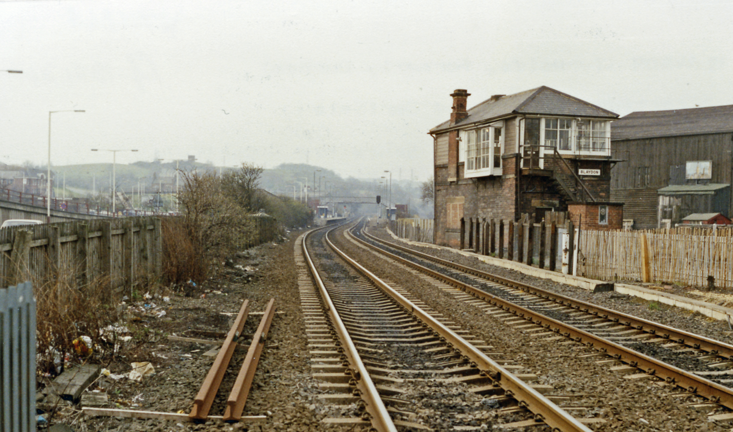 Blaydon signalbox and station, 1989. View westward, towards Hexham and Carlisle: ex-NER Newcastle - Carlisle main line. The line below is from Newcastle Central and Gateshead via Dunston; until 4/10/82 the main line came from Newcastle Central on the north side of the Tyne via Scotswood Bridge and joined here